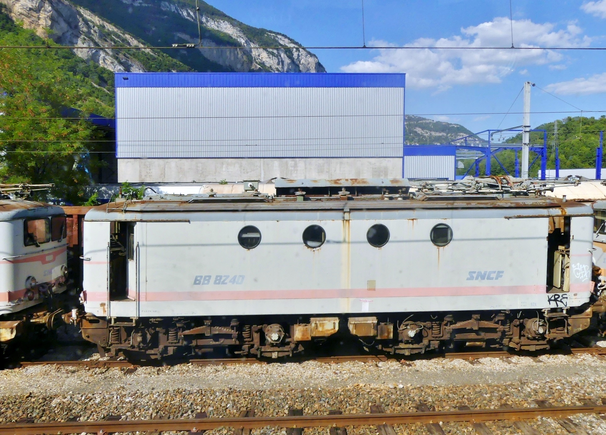 Sight of French SNCF Class BB 8100 locomotives waiting for their destruction and recycling at Culoz, ran by the Société Métallurgique d'Épernay (SME) company, in Ain.